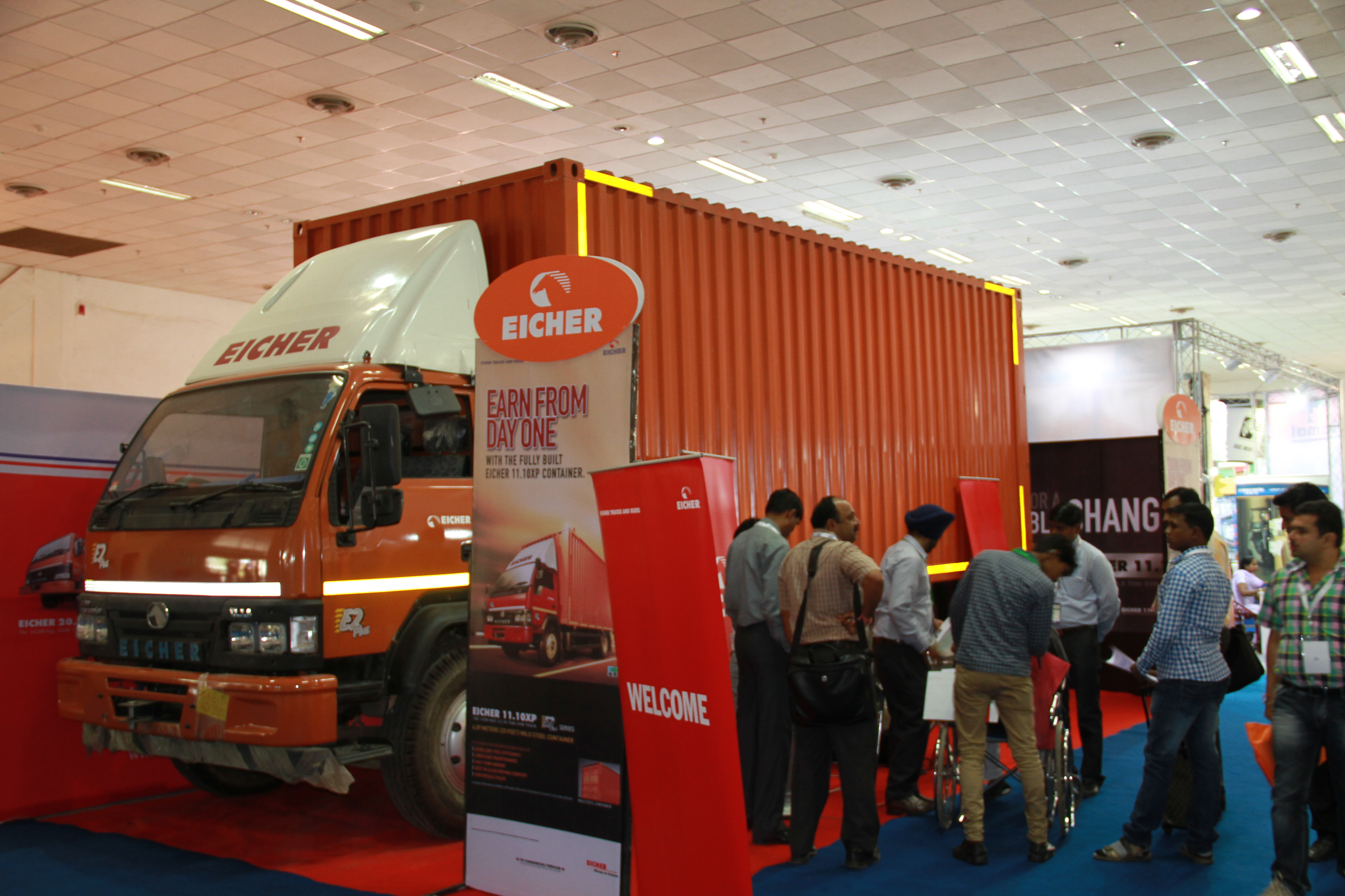 Commercial vehicles by Eicher Motors at display